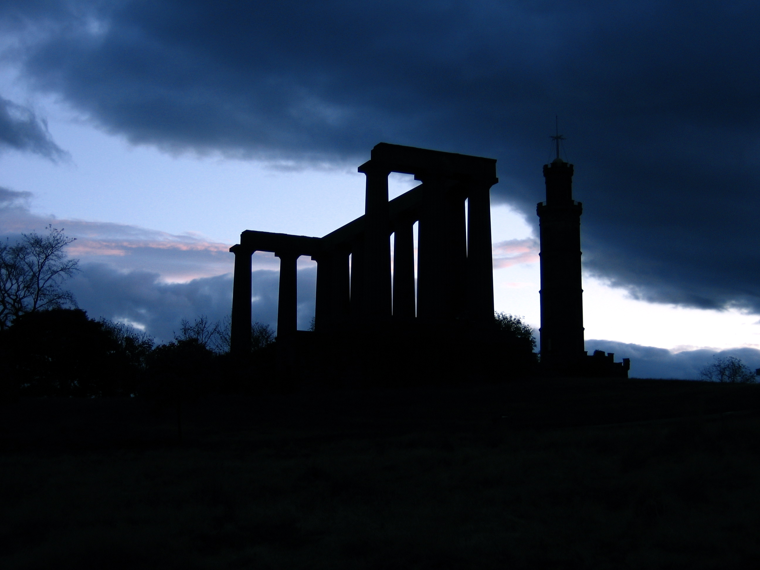 National Monument to the Napoleonic Dead - Nelson's Monument - Calton Hill, Edinburgh, Scotland.